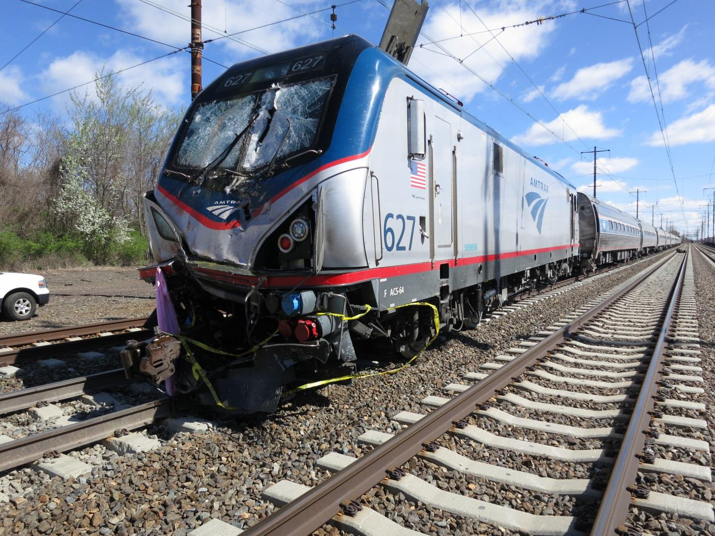 Amtrak locomotive #627 sits damaged after it struck a backhoe in Chester, Pennsylvania while in the lead of the northbound Palmetto on April 3, 2016